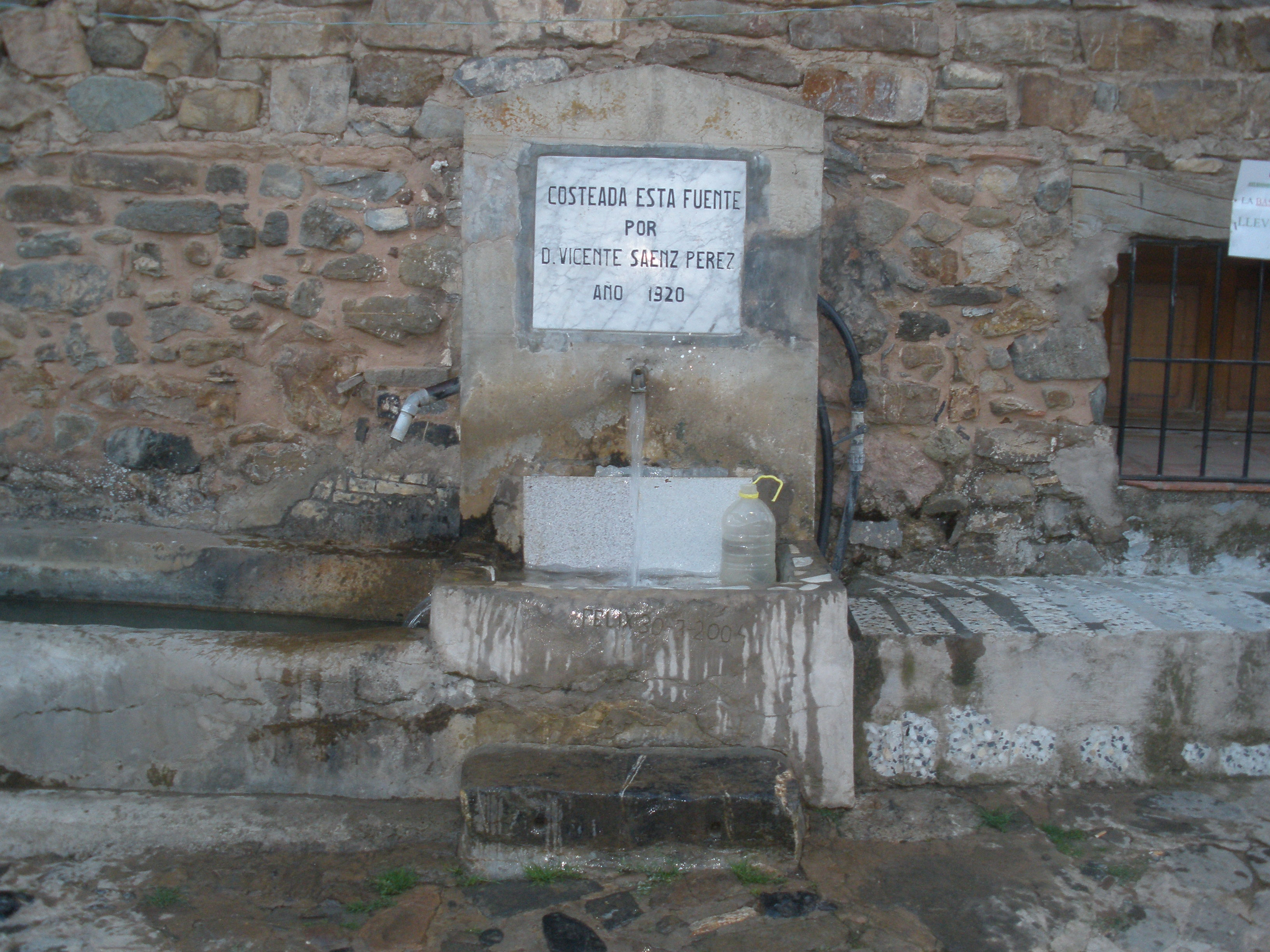 Ambas Aguas fountain.